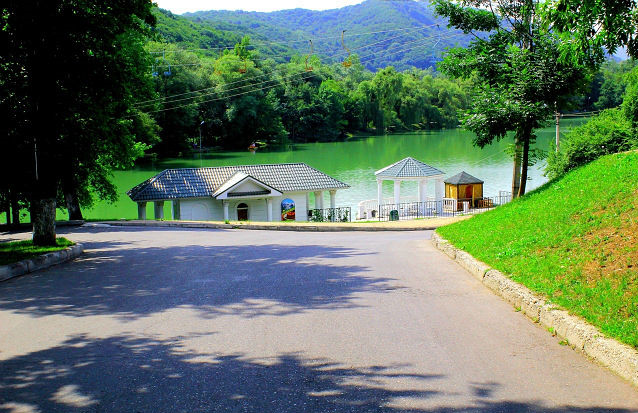 Descent to the Lake Resort in the city of Nalchik